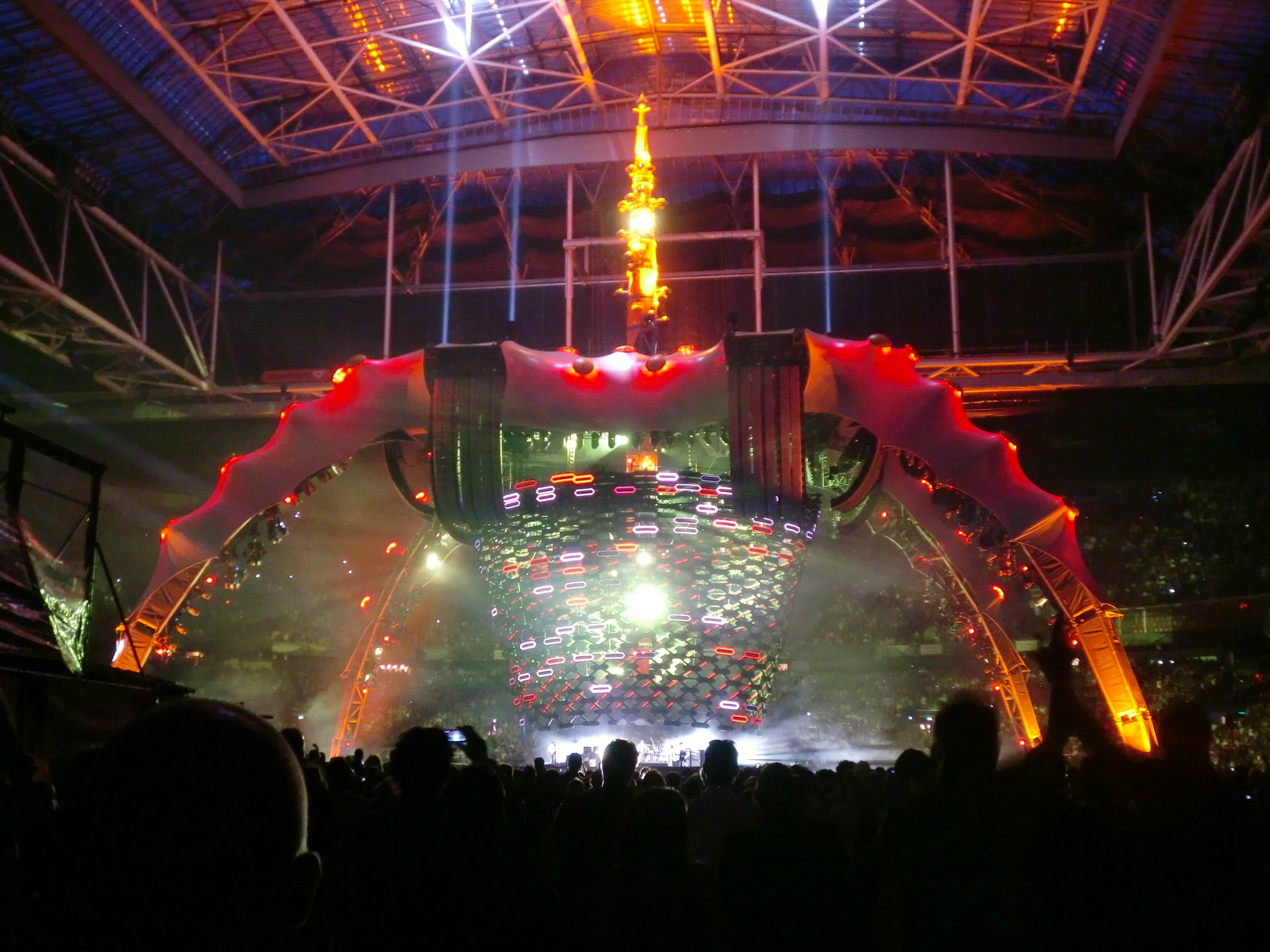 U2 at the Amsterdam ArenA during the 360° Tour.